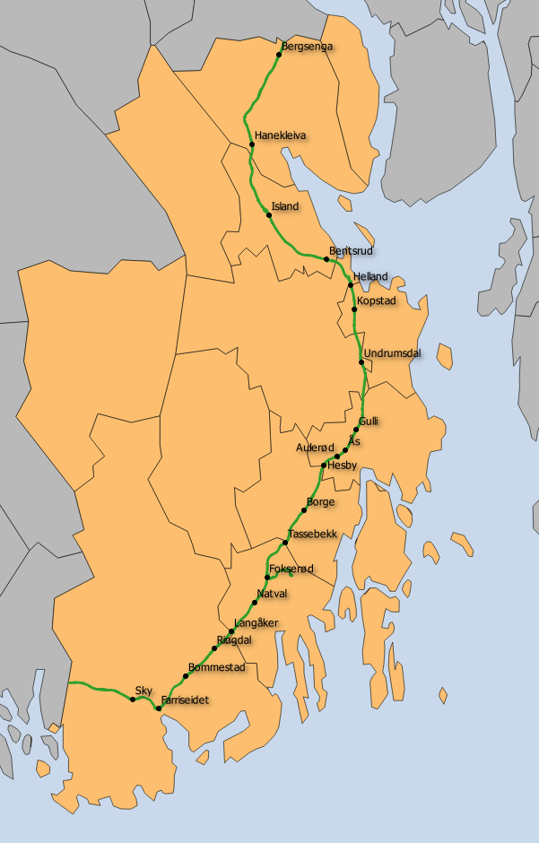 Map of European Route 18 (E18) in Vestfold, with names of junctions.